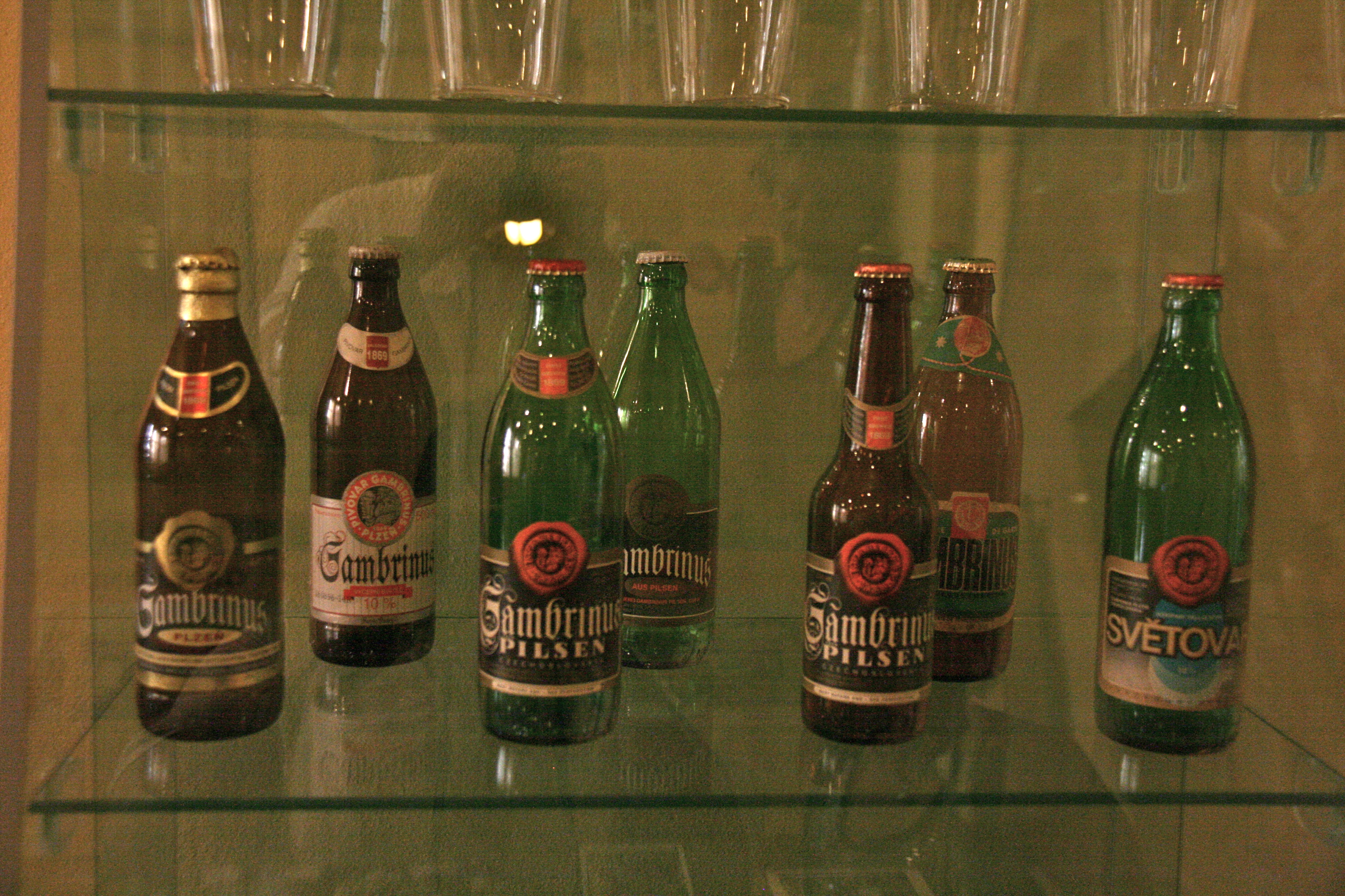 Gambrinus vintage bottles